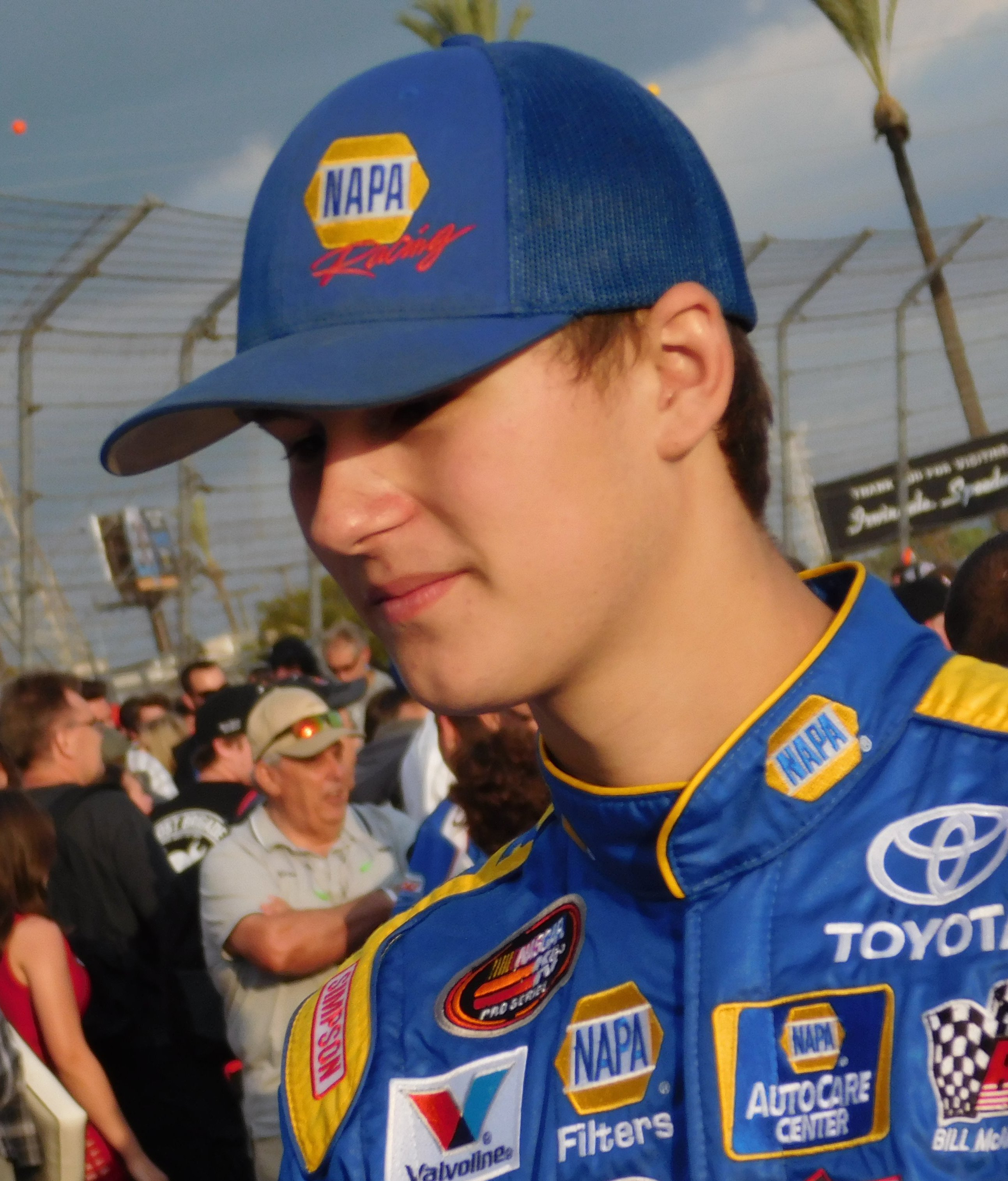 Todd Gilliland at Irwindale Speedway in 2017